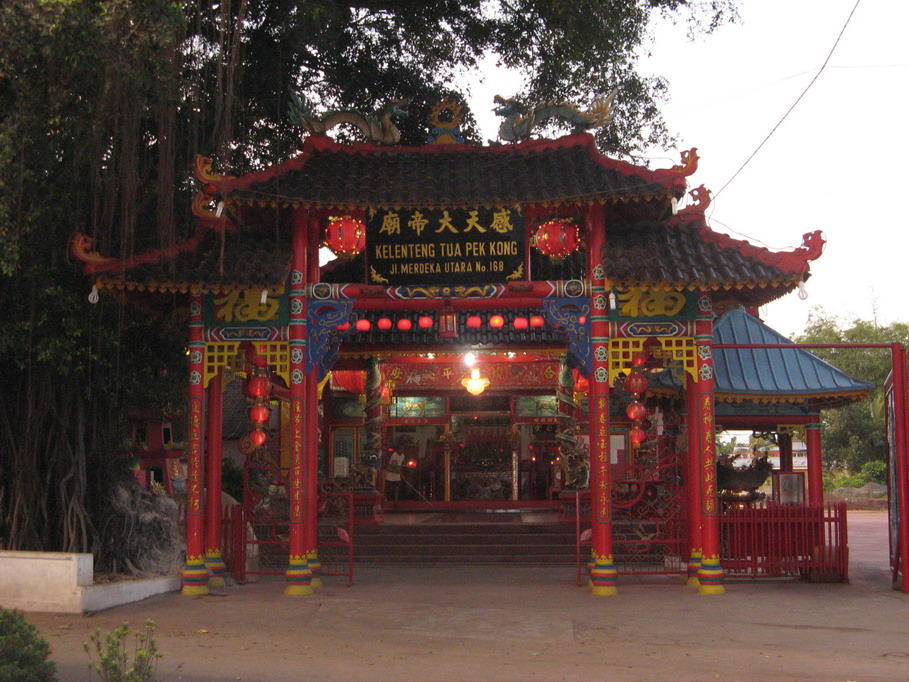 Kelenteng Tua Pek Kong, a chinese temple located in Ketapang city, West Kalimantan, in Borneo island.